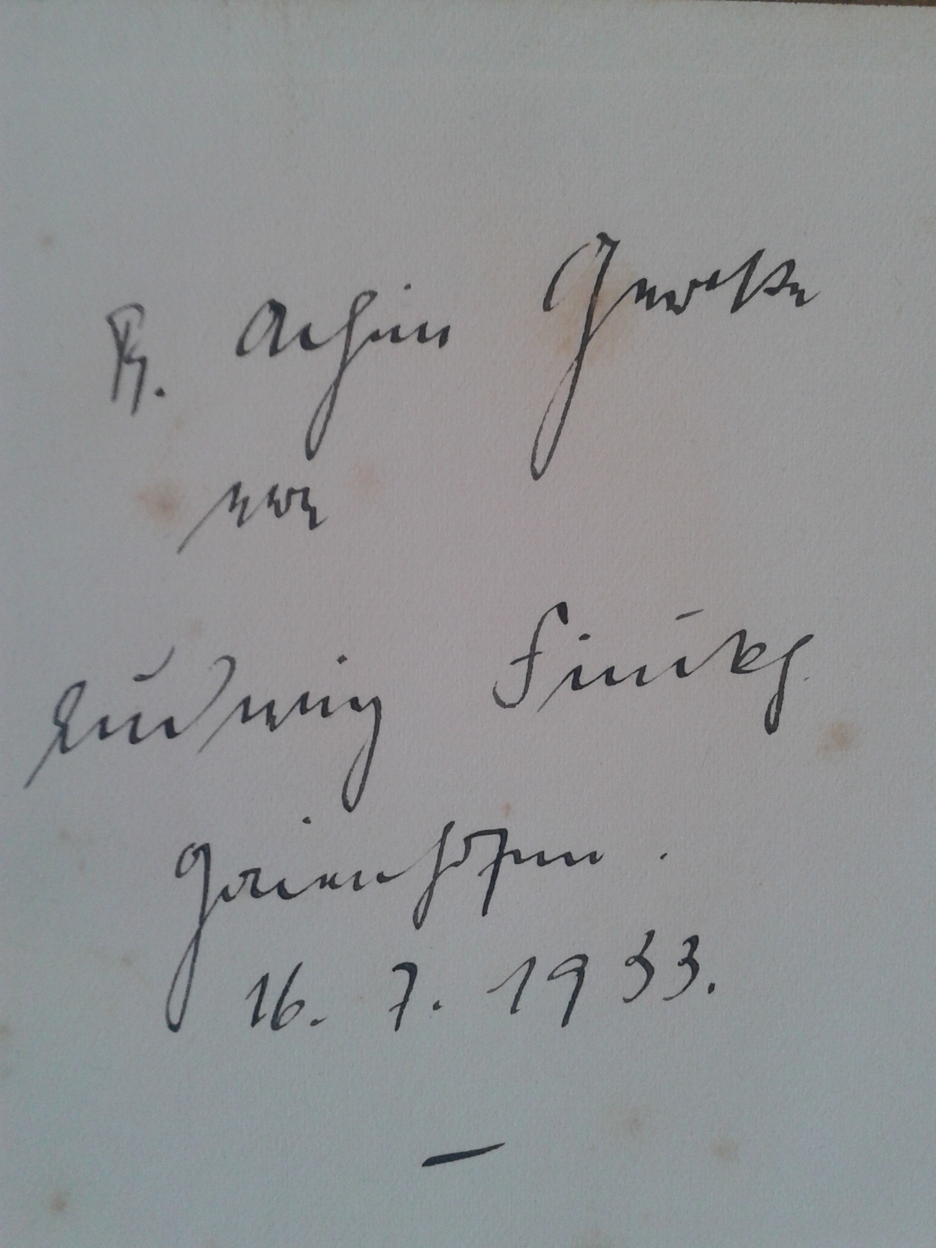 Handwritten Dedication in Ludwig Finckh's Book "Der Ahnenhorst" to Achim Gercke, 1933.